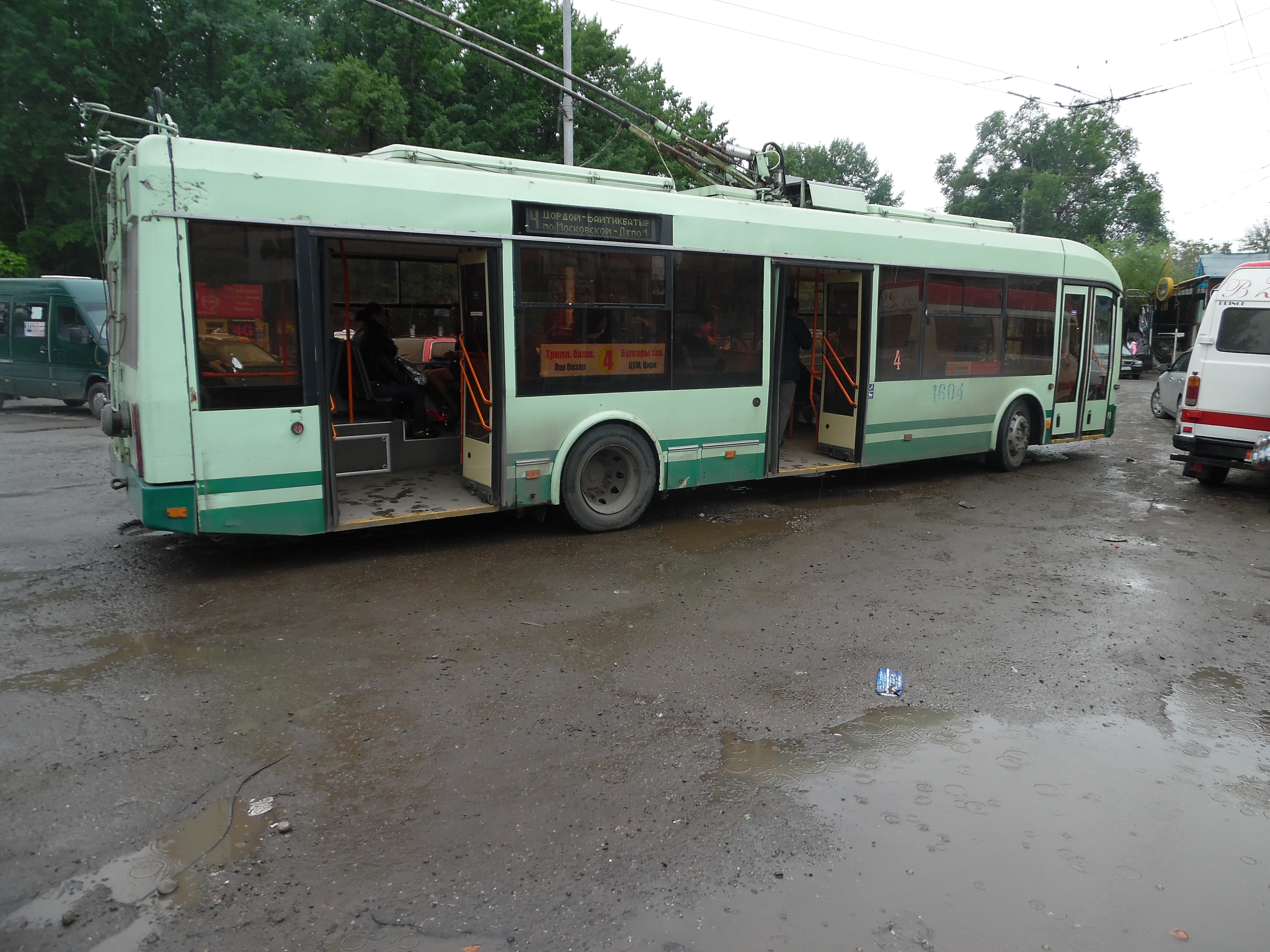 Bishkek trolleybus at the Dordoj stop. Number 1604 is a 2008 Belkommunmash AKSM-321 trolleybus.